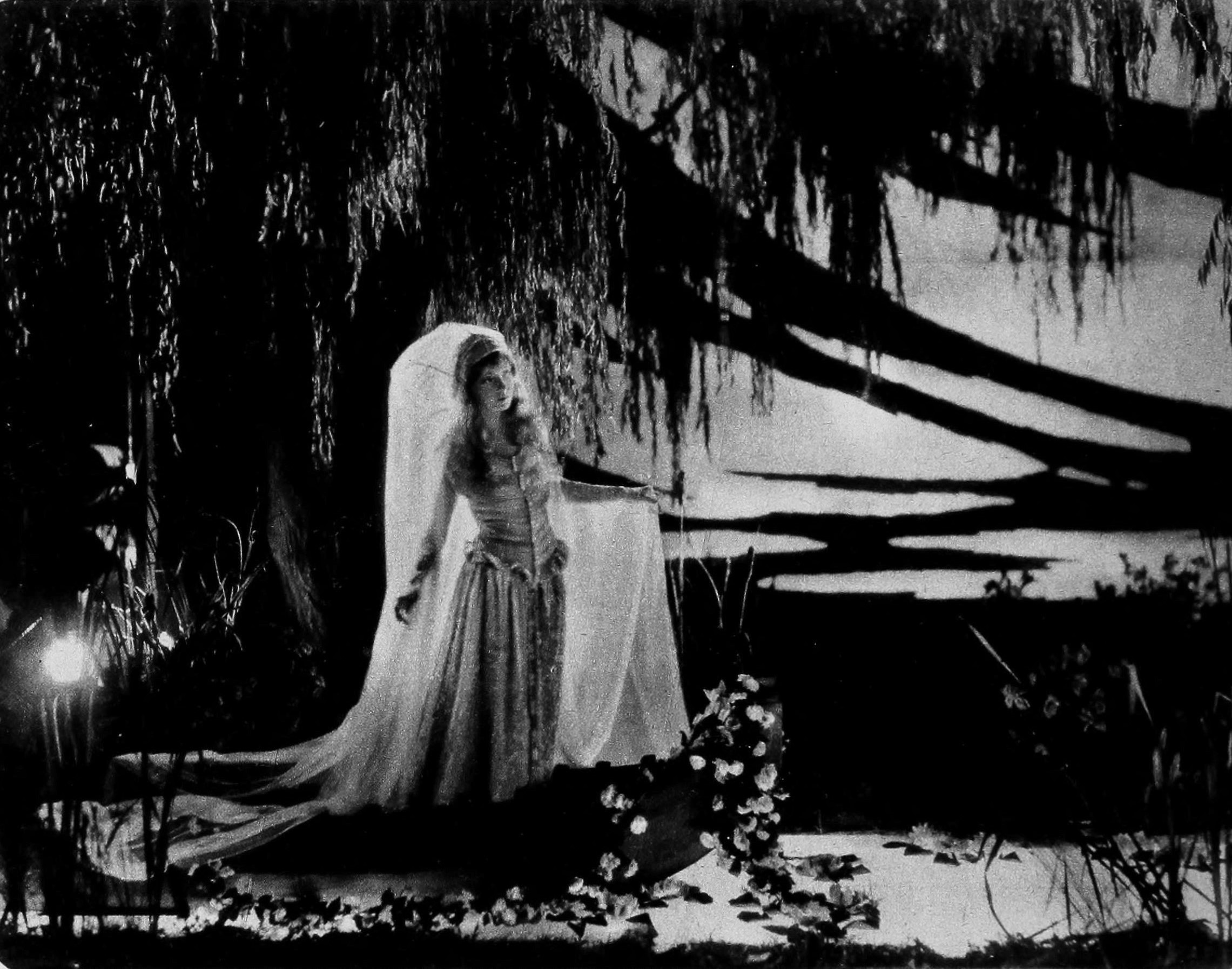 Lillian Gish in Way Down East. Motion Picture, February 1921